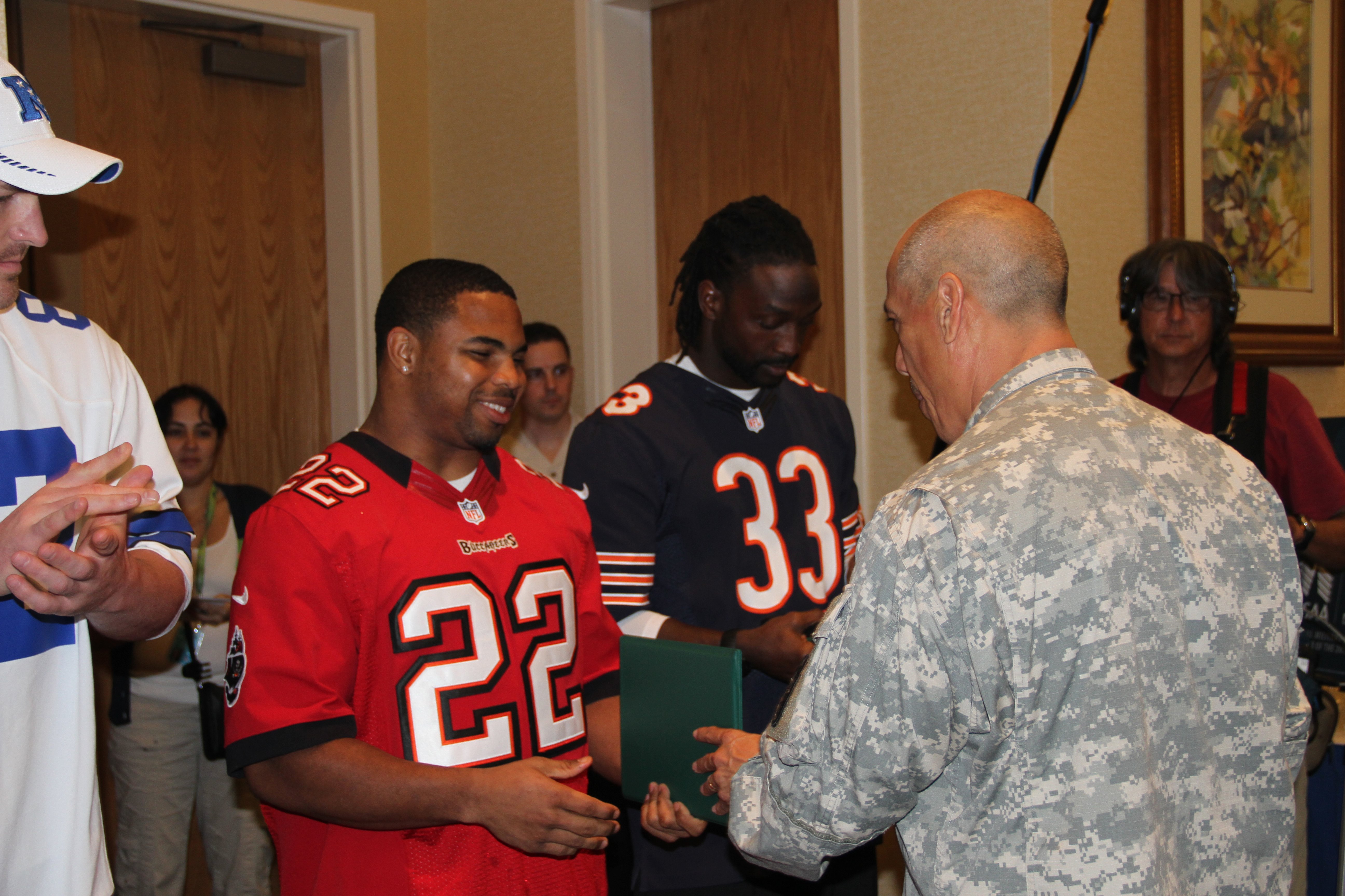 SCHOFIELD BARRACKS, Hawaii " Doug Martin, running back for the Tampa Bay Buccaneers, receives a certificate of appreciation, commander's coin and T-shirt from Lt. Col. Stanley Garcia, commander, Warrior Transition Battalion, at a wounded warrior luncheon at the Nehelani, here, Jan. 24.